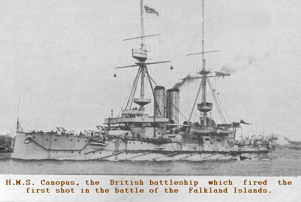 Stylized image to mimic news photo of HMS Canopus (1898) as it appeared during World War I (scrapped in 1919). The image follows the pattern of a reference news photo but is not a copy and differs in the scale of the ship, alignment in the water, and newsprint font (source reference image linked below).